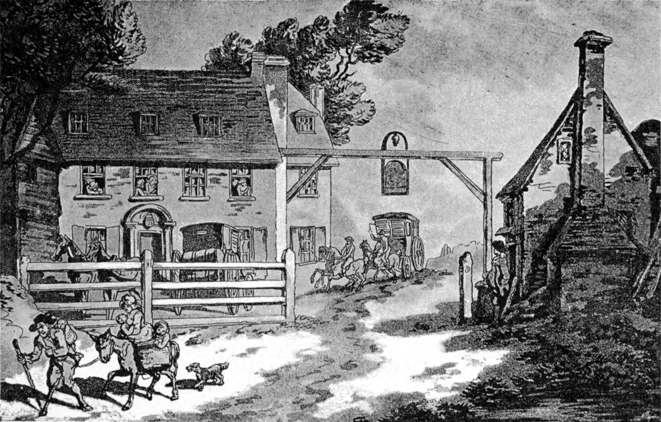 The Cock - a coaching inn in Sutton on the main highway to Brighton.